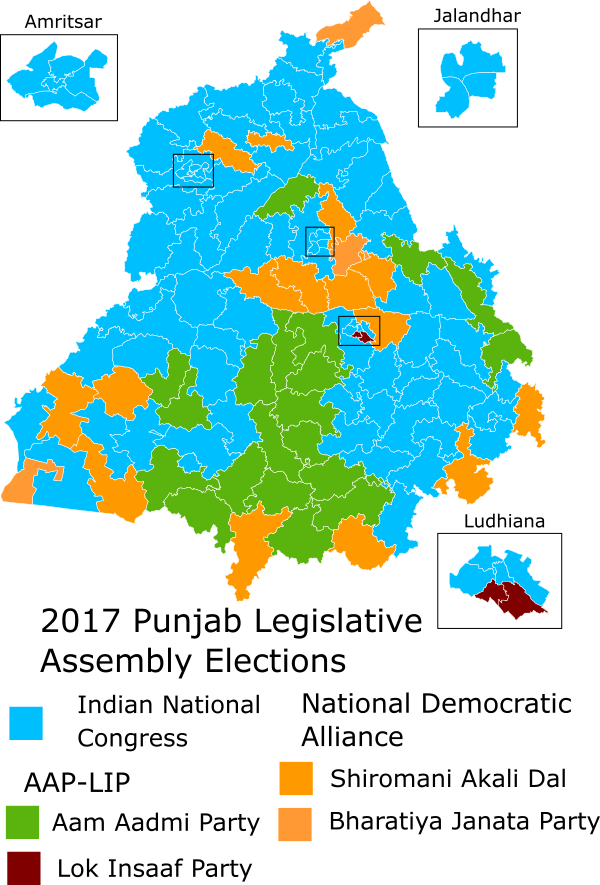 Map shows constituencies won by political parties